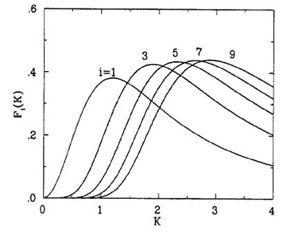 Undulator_radiation_on_axis.png